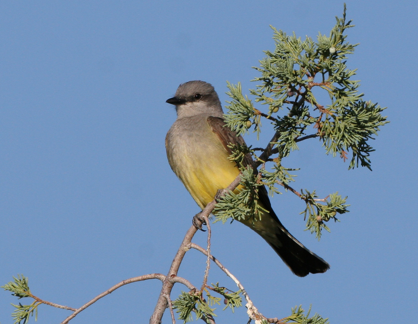 Western kingbird (Tyrannus verticalis), Spring Creek, Nevada, USA